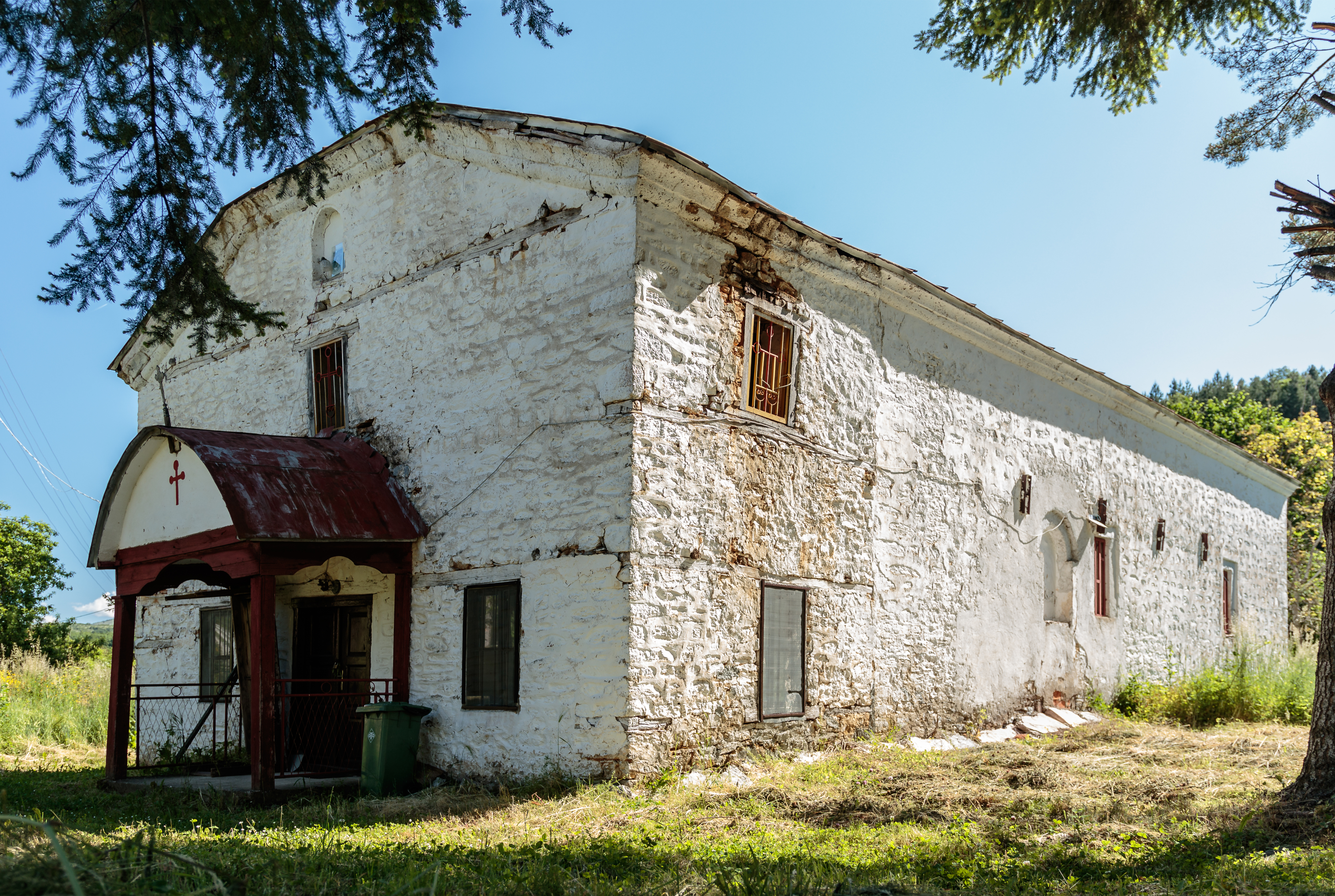 View of the St. Elijah Church in the village Velmevci